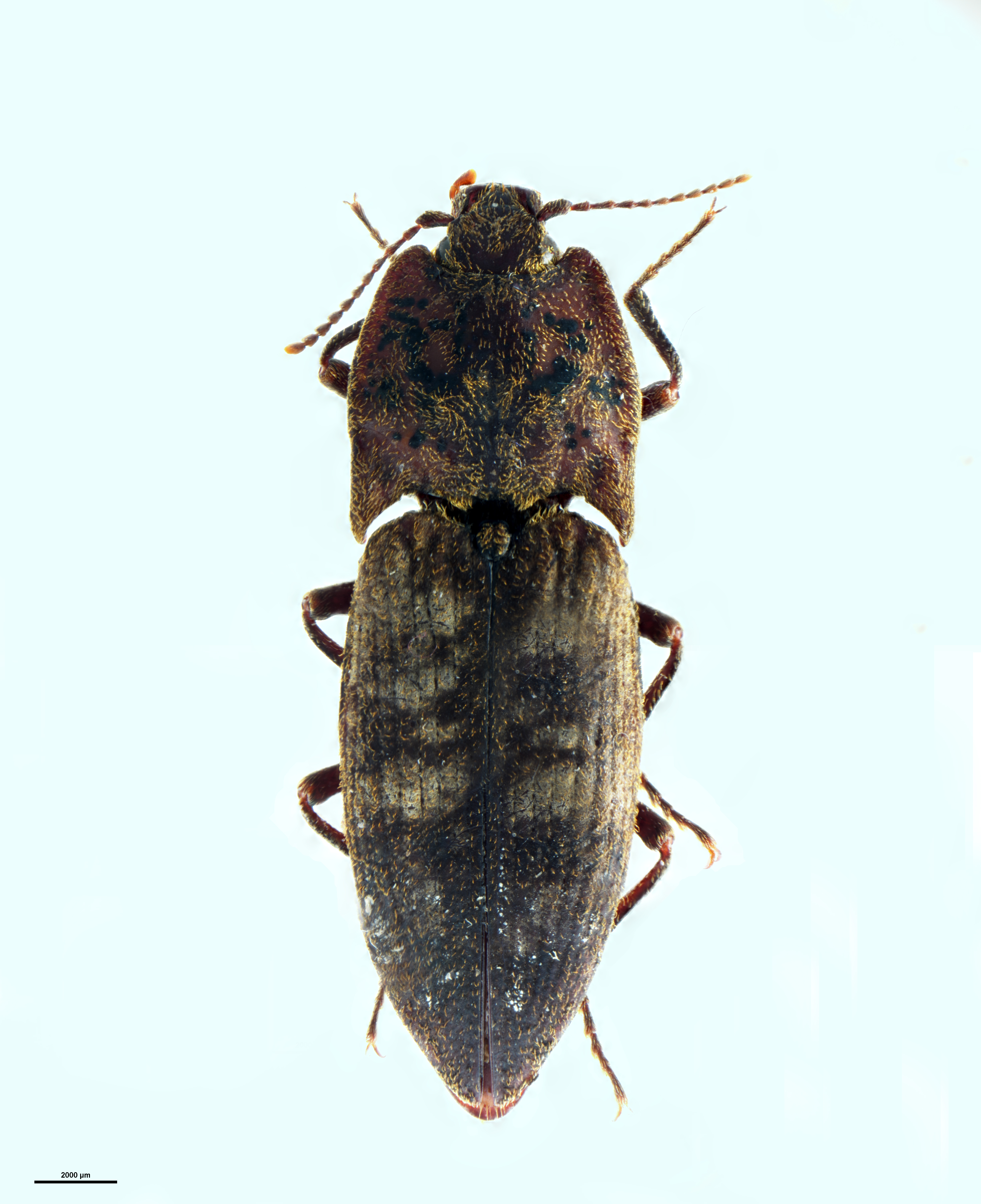 Holotype specimen of Three Kings click beetle "Amychus manawatawhi" Marris & Johnson 2010, collected on Great Island in 2006 and lodged in Lincoln University Entomology Research Collection